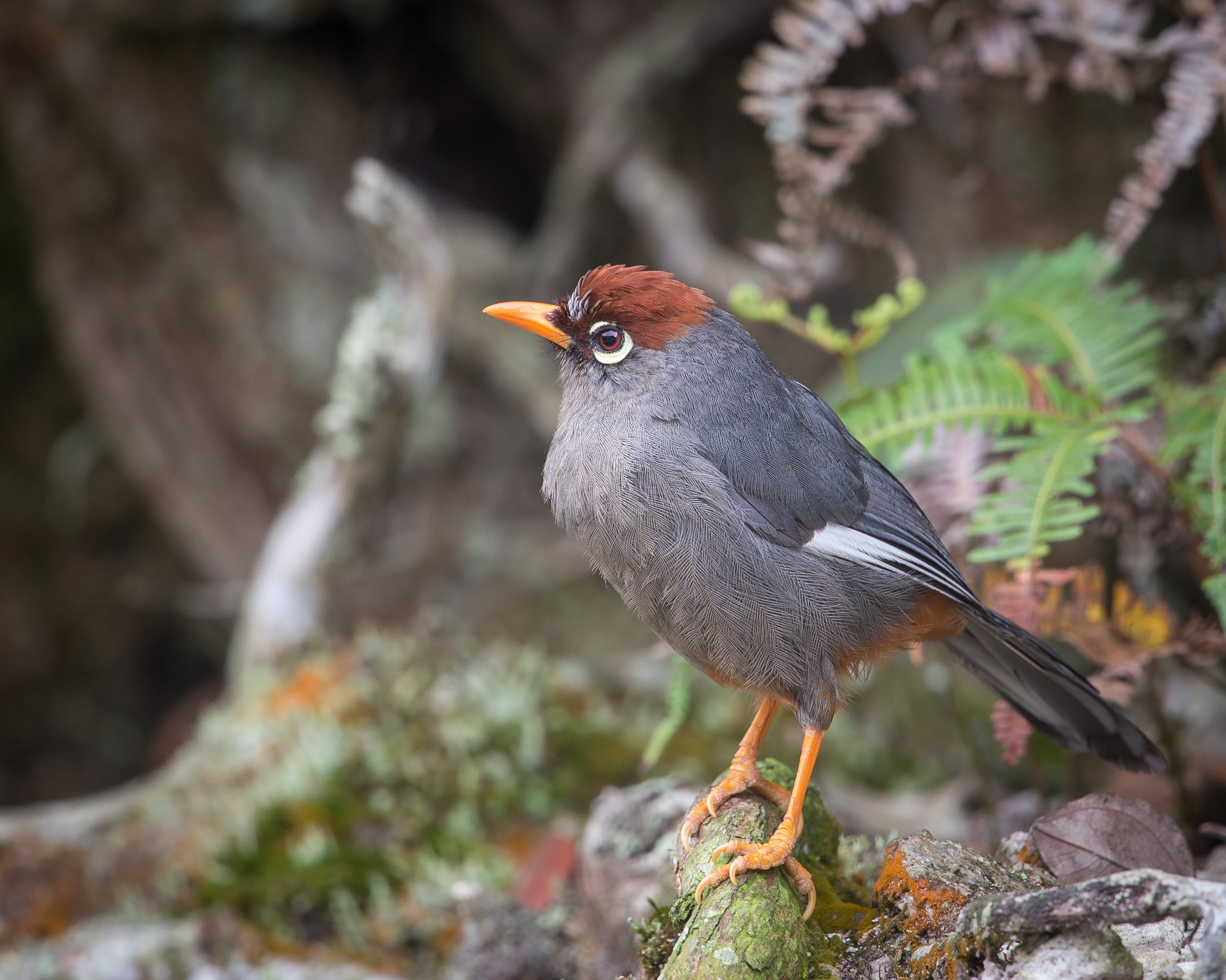 Chestnut-capped Laughingthrush Garrulax mitratus, Jelai Resort, Fraser's Hill, Pahang, Malaysia